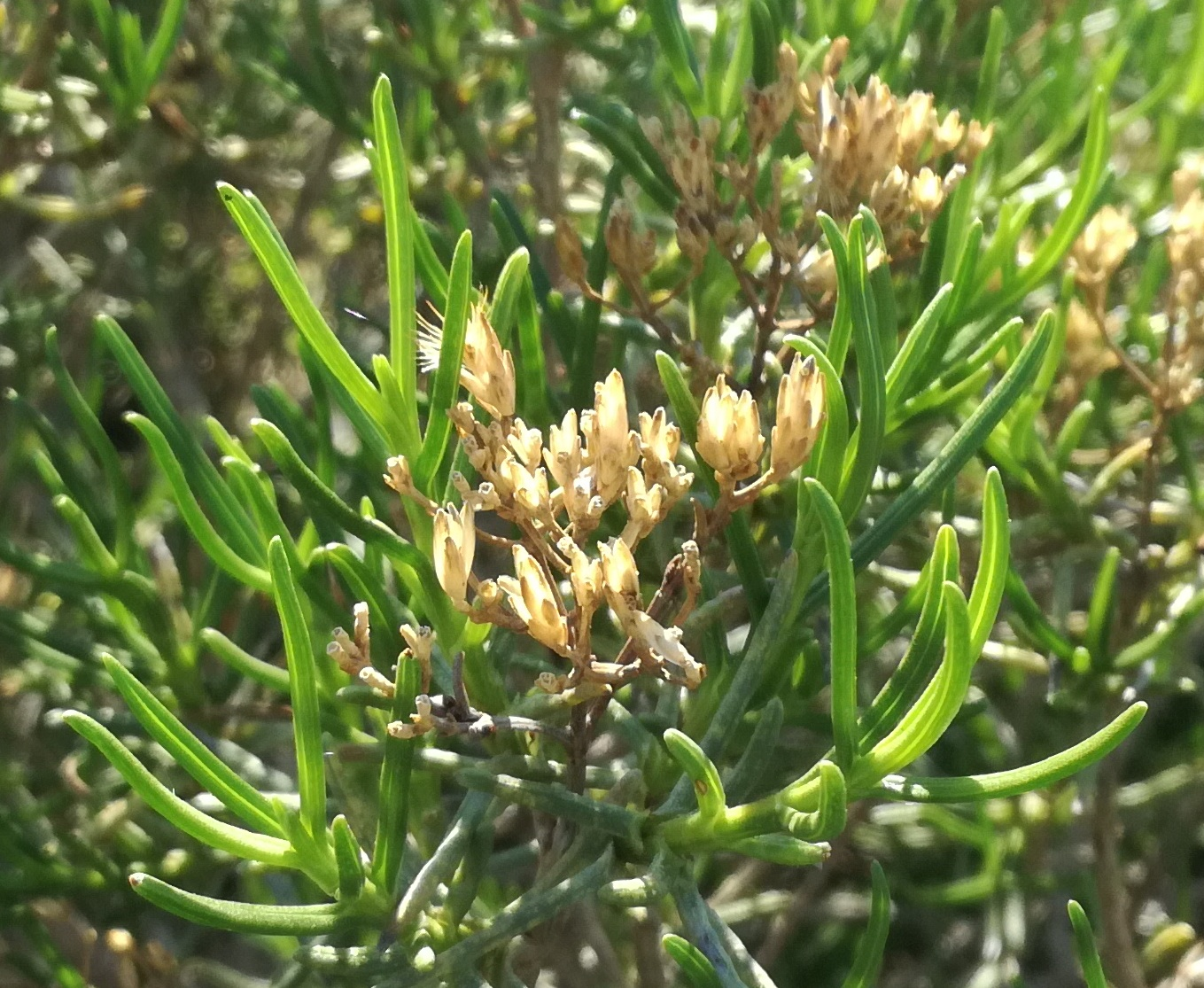 Pteronia paniculata - dried flower sheaths - Worcester